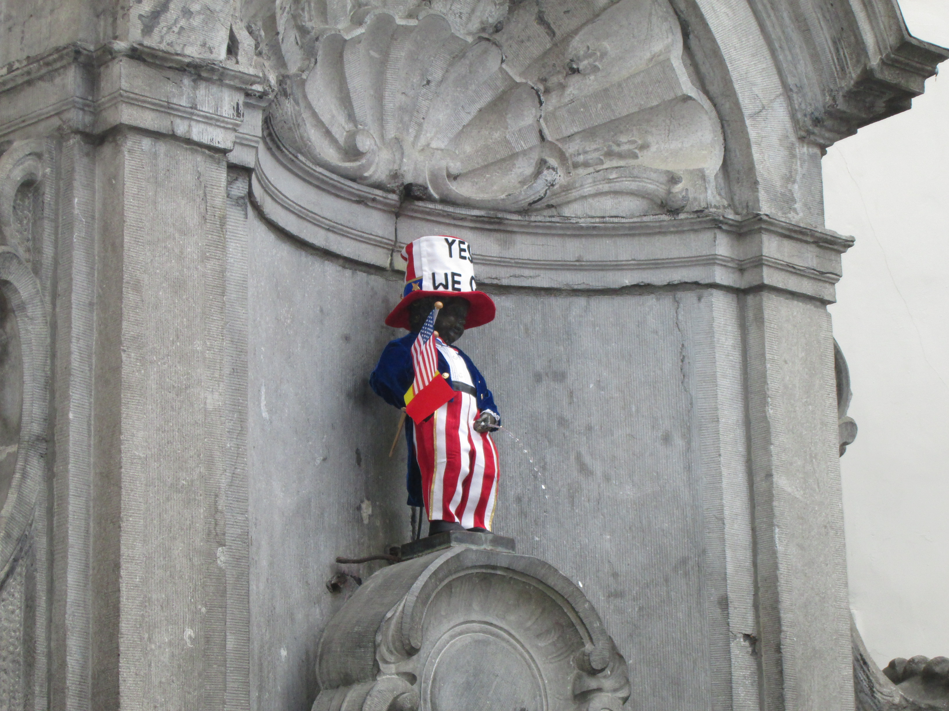 The Manneken Pis dressed for the 4th of July